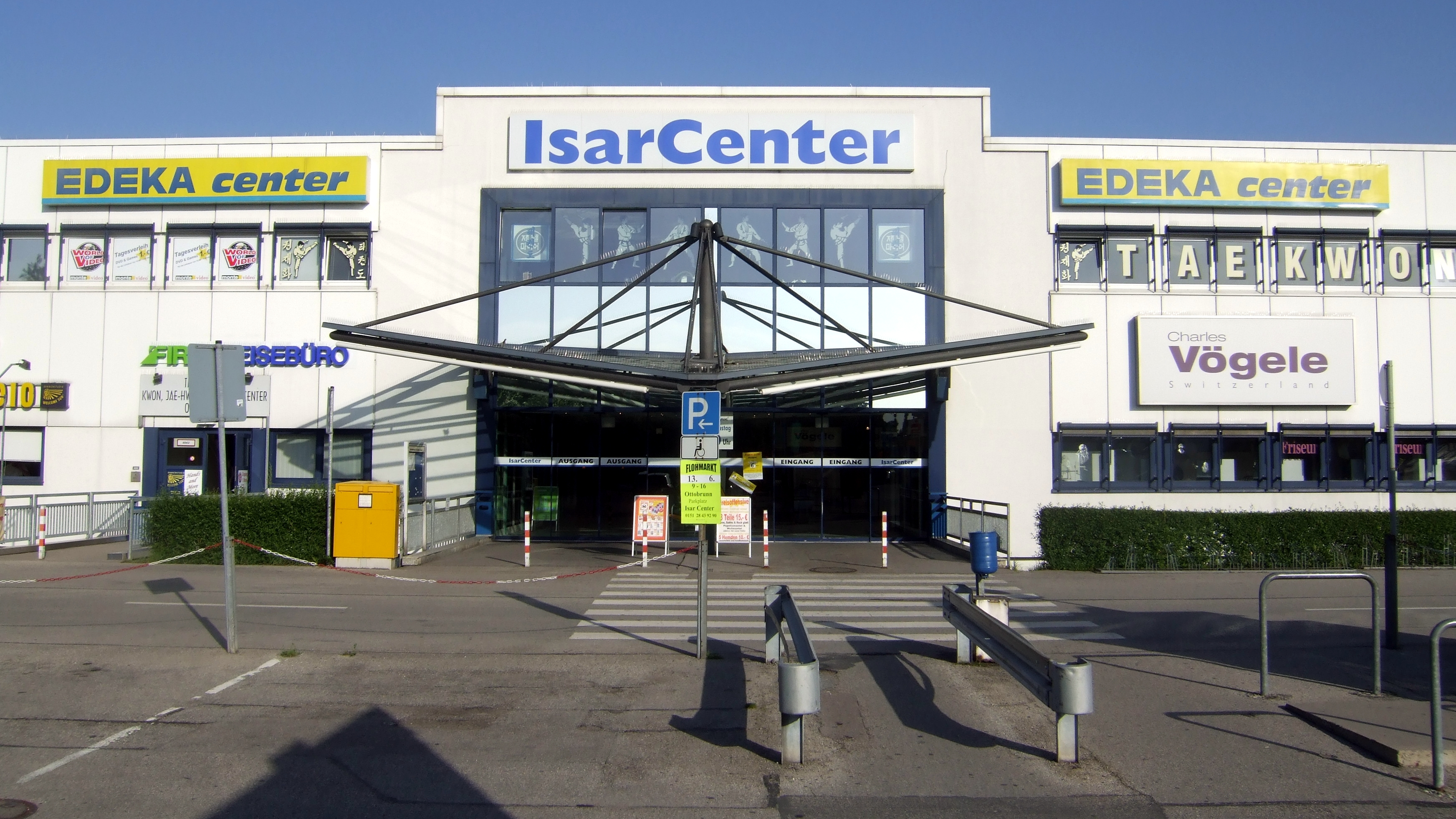 Ottobrunn: "Isar Center" shopping mall (main entrance)